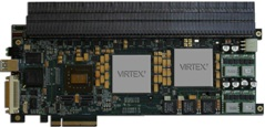 Aldec HES7 ASIC/SoC FPGA-based prototyping platform